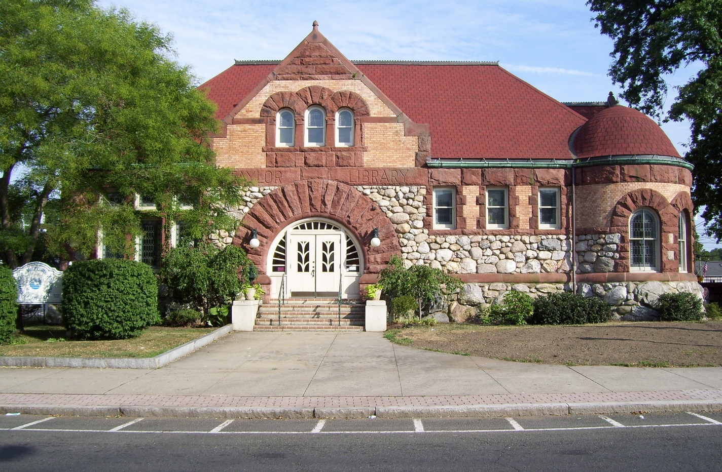 Photo of the Taylor Memorial Library in Milford, Connecticut, a structure listed on the U.S. National Register of Historic Places.